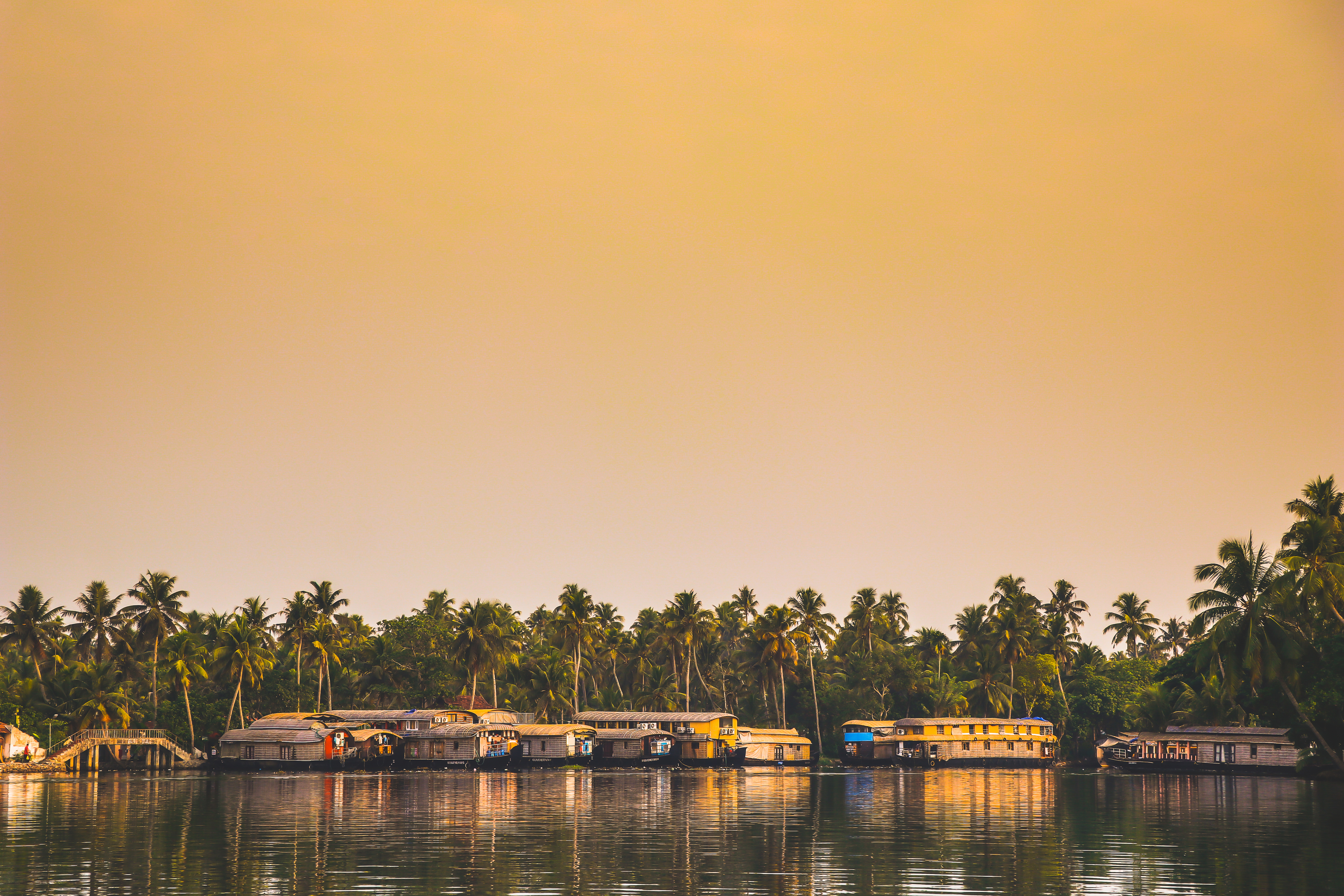 Alleppey Boat houses in Kerala